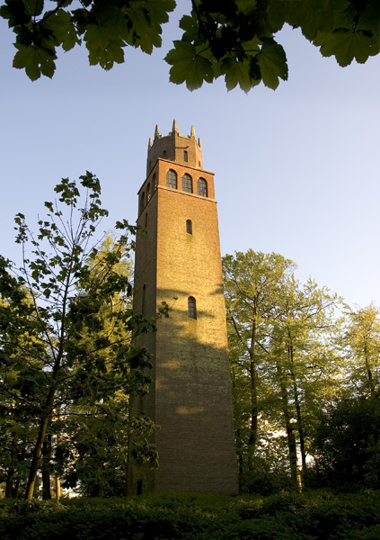 Faringdon Folly. This is the folly tower of Faringdon, Oxfordshire which sits on a small hill above the village. This was the last known folly built.